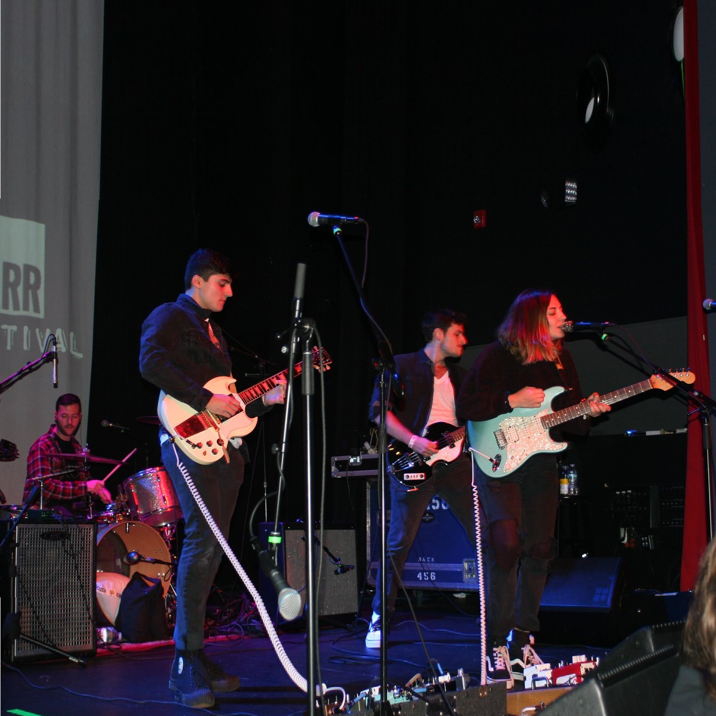 The Vaughns at the 2018 North Jersey Indie Rock Festival